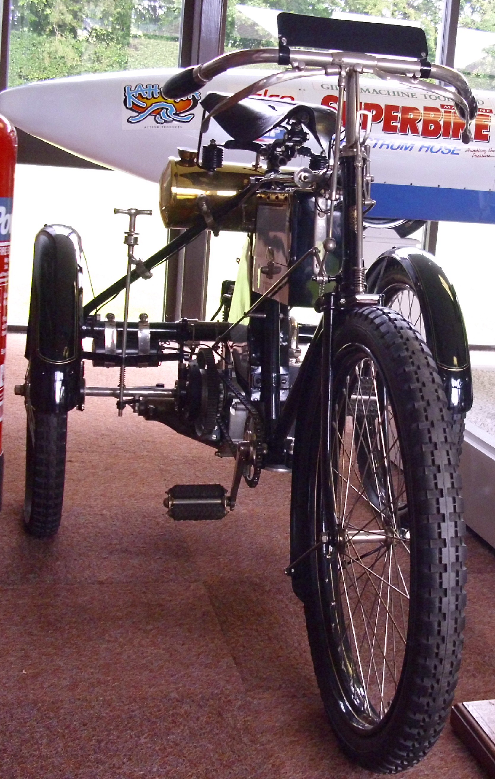 Beeston Humber Tricycle 1898